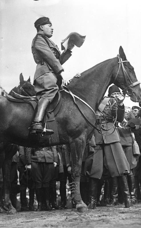 Benito Mussolini on a horse